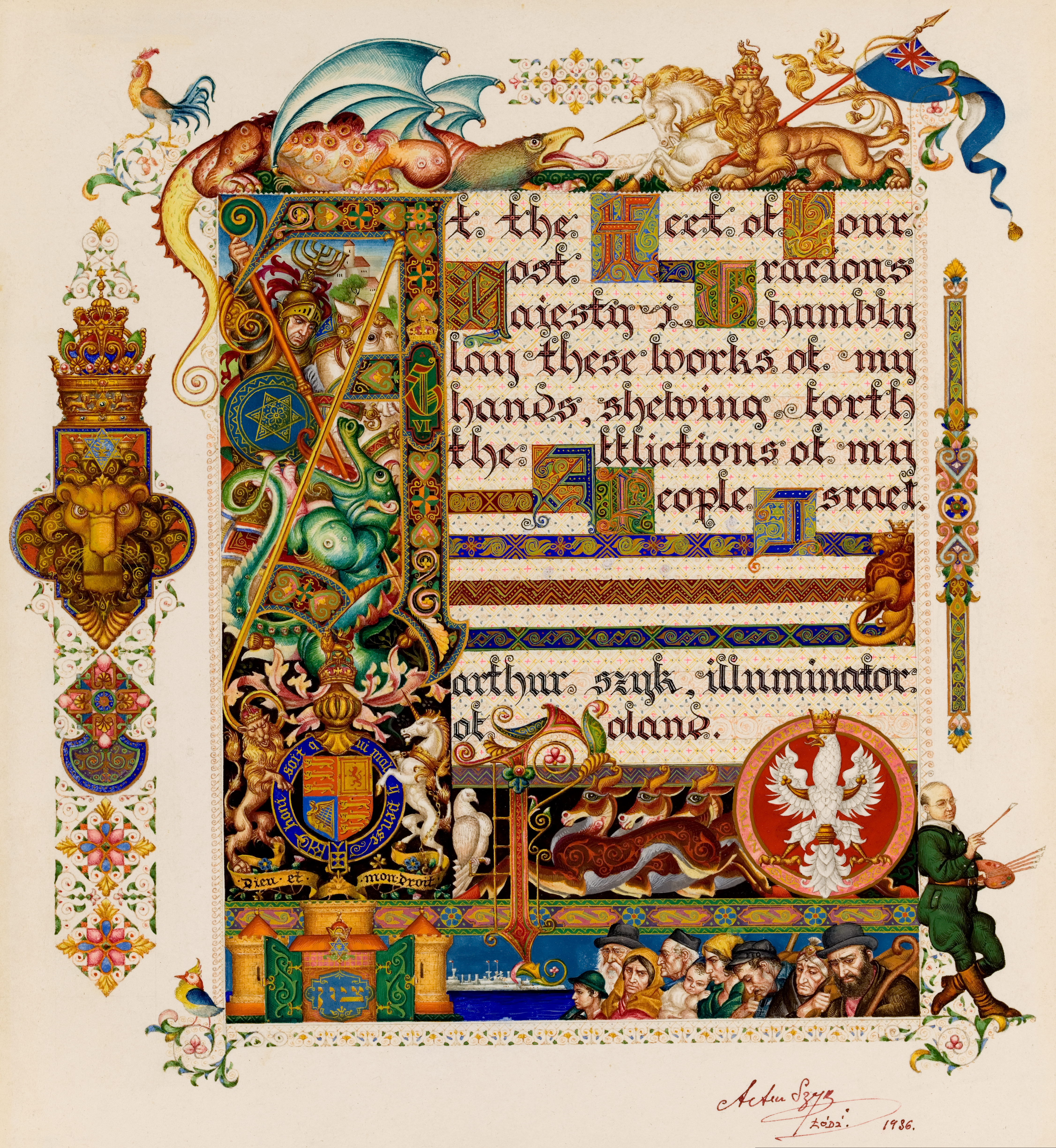 Arthur Szyk originally intended his Passover story of persecution and deliverance (told through the traditional text of the Haggadah) to be a strong statement against the Nazis, but no publisher in his native Poland dared take on a project with strong anti-Nazi iconography. When he found a publisher in England, Szyk created this dedication page to King George VI, imploring him in courtly fashion to found the State of Israel. Szyk caricatures himself in the lower right corner, as a puckish Medieval artist as many scribes had done before him.